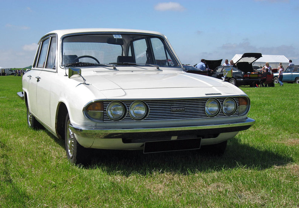 I edited the original image for use on my ad-supported automotive website (Ate Up With Motor), obscuring the number plate and people in the background. This is the edited version.